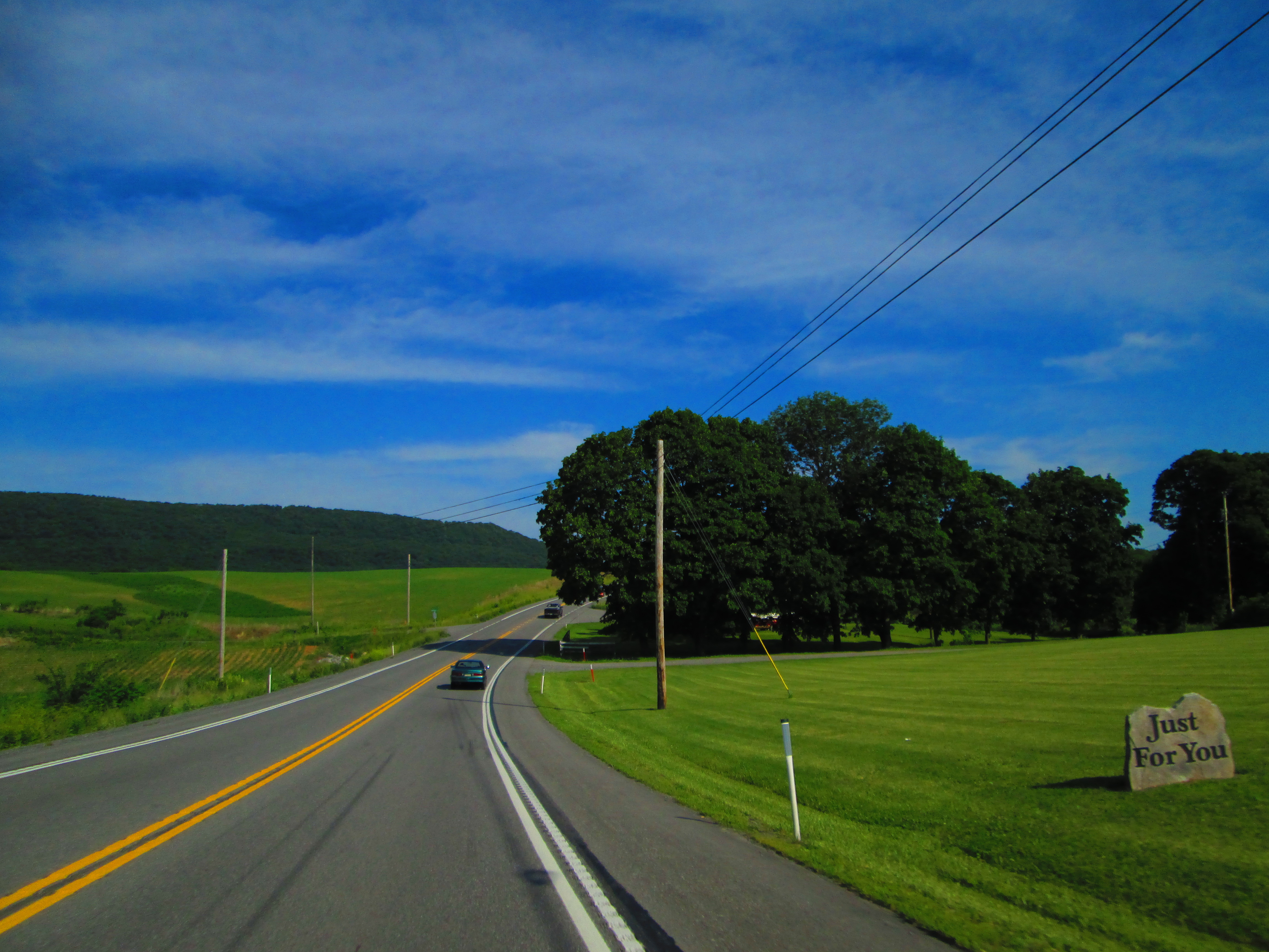 State Route 453 southbound north of the village of Water Street. Pennsylvania.